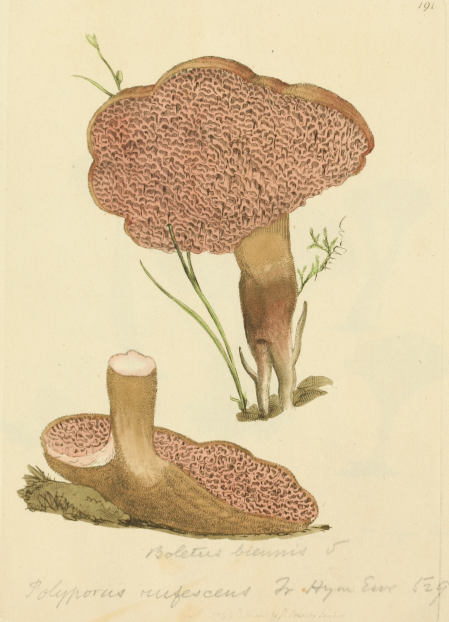 This is a plate from James Sowerby's Coloured Figures of English Fungi or Mushrooms.